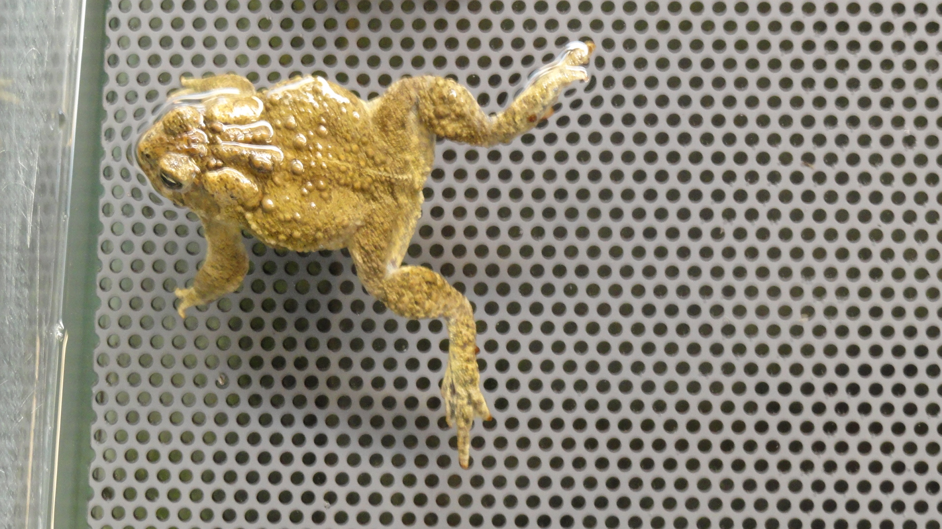 In April of 2014, regional office employees visited Saratoga National Fish Hatchery to learn more about its efforts towards recovering the Wyoming toad (Bufo baxteri). The hatchery adopted a unique role in becoming the first unit in the National Fish Hatchery System to become involved in rearing endangered amphibians. The Wyoming toad was a common sight on areas of the Laramie Plains, Albany County, Wyoming, into the early 1970s but the species' populations crashed in the mid-1970s. The Wyoming toad was listed as endangered by the U.S. Fish & Wildlife Service in January 1984. Found only in southwestern Wyoming, the Wyoming toad is considered the most endangered amphibian in North America. The hatchery maintains a captive population for breeding, rearing, and refugia, and the offspring from this program will be used for reintroduction efforts. Photo Credit: Bridget Fahey / USFWS